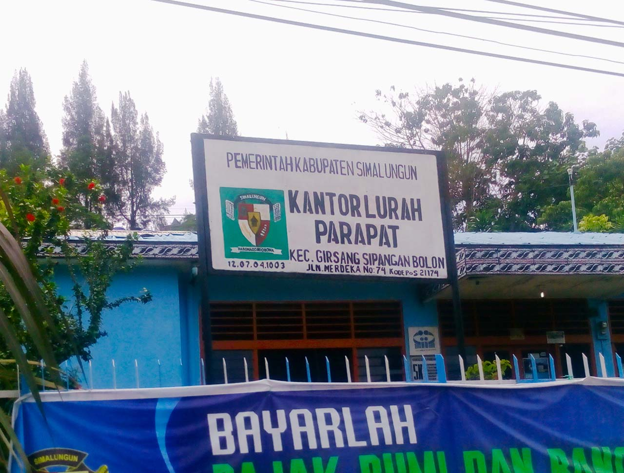 Office of Parapat, Girsang Sipangan Bolon, Simalungun